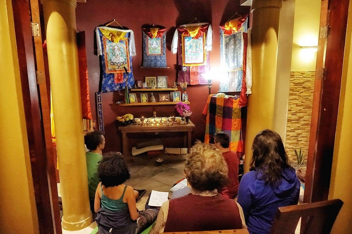 Bon altar of Jiménez Navarro family in Costa Rica